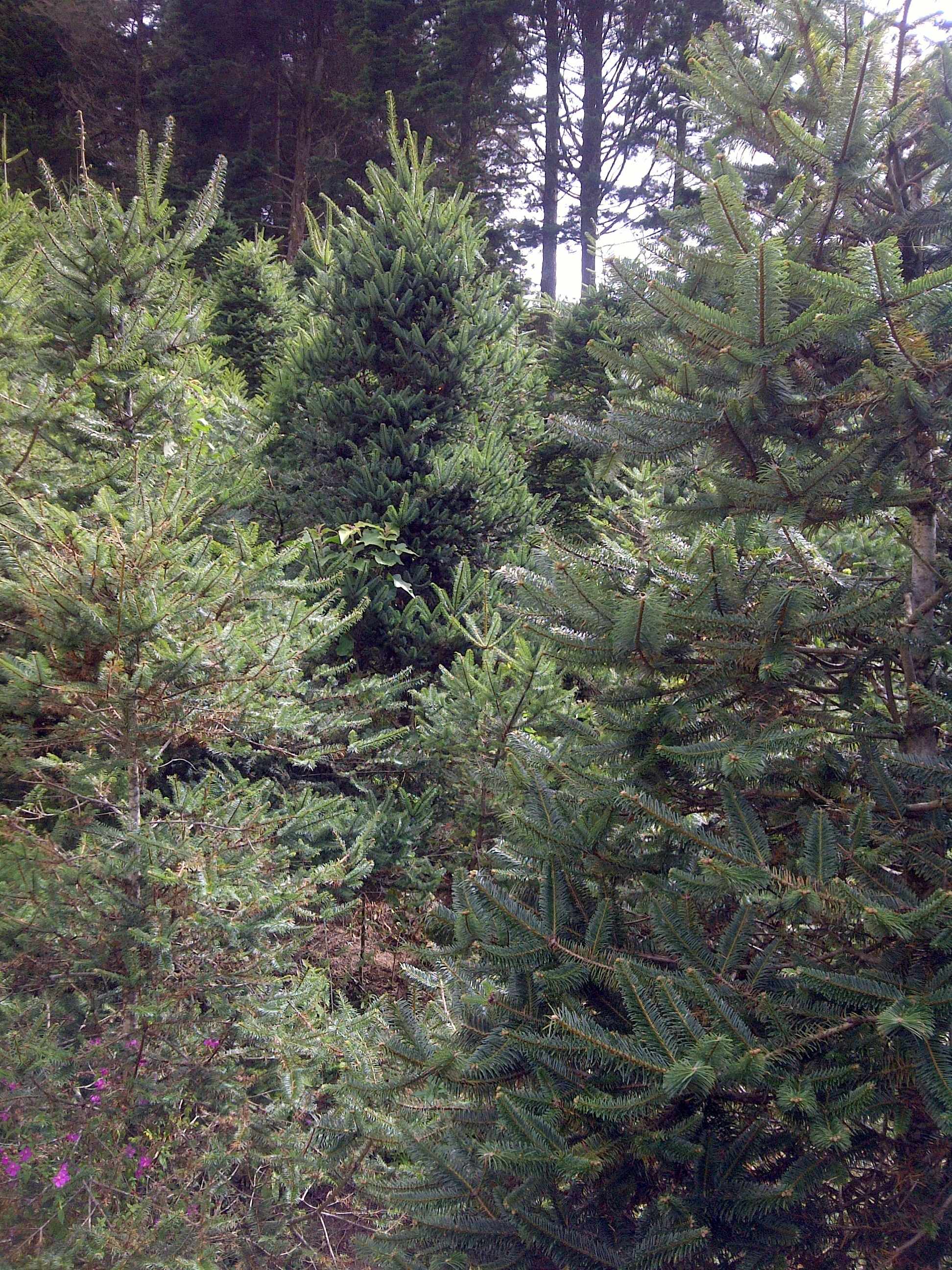 Firs, Abies guatemalensis